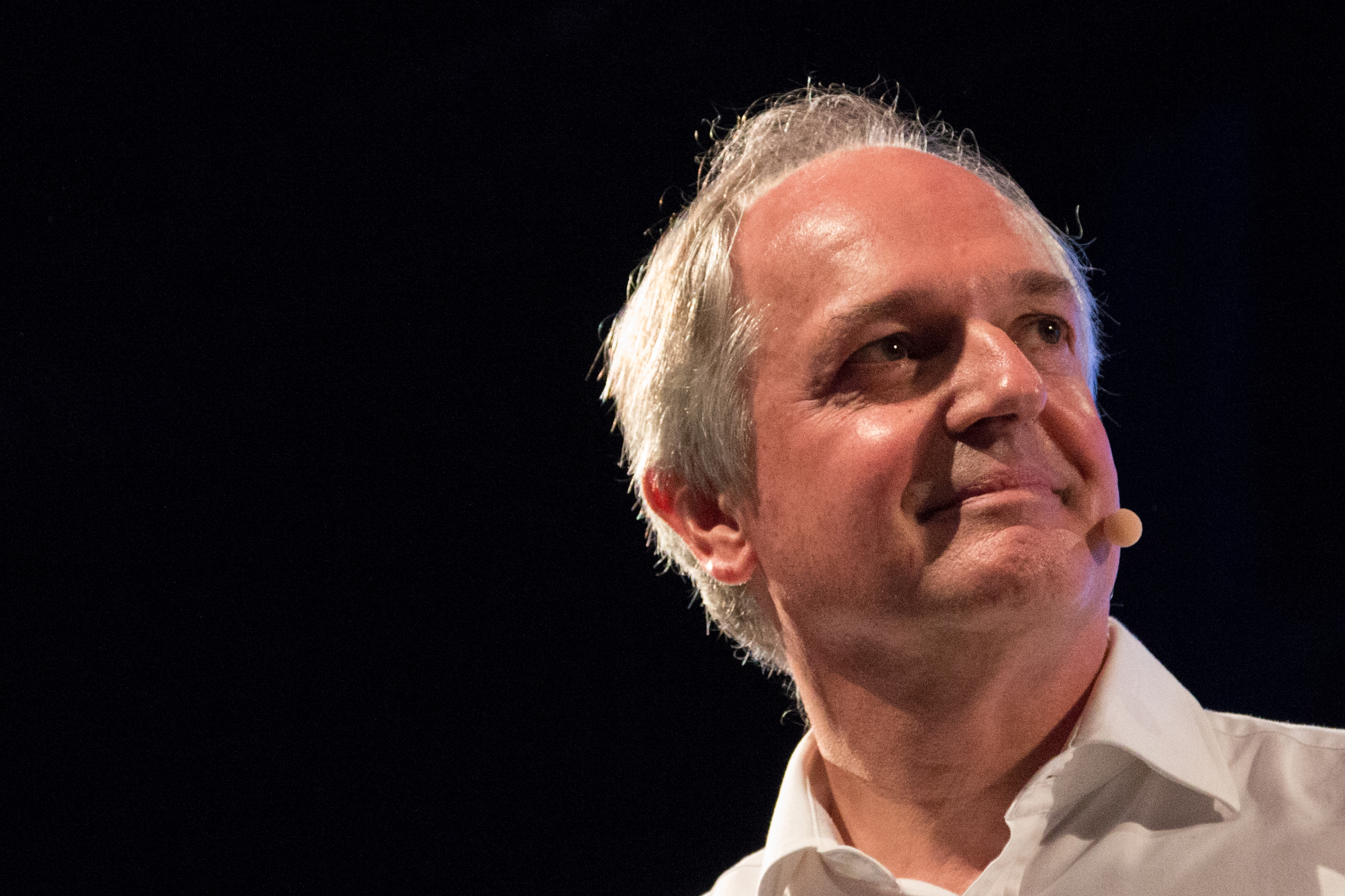 Paul Polman at the 2014 One Young World Conference in Dublin, Ireland.